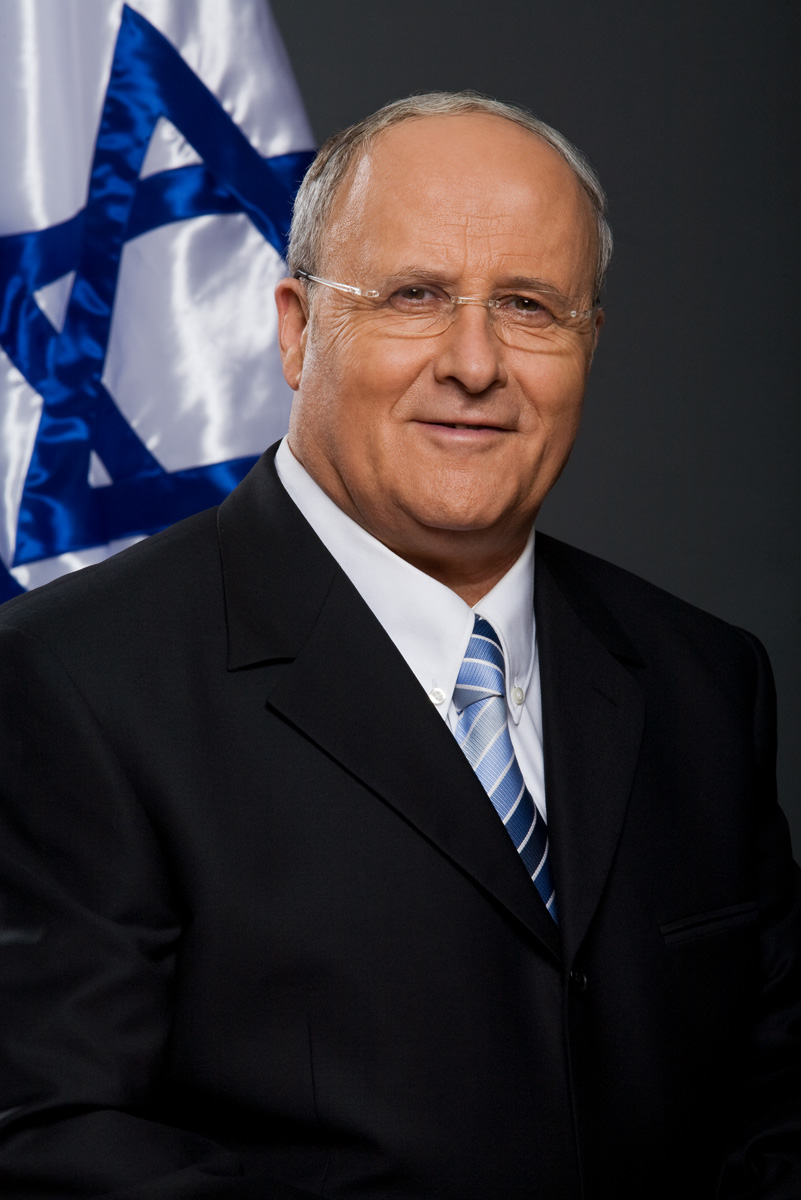 Zevulun Orlev (Hebrew: זבולון אורלב, born 9 November 1945) is an Israeli politician and a former leader of the National Religious Party. He was Minister of Welfare & Social Services (March 2003 - November 2004), and is currently a Member of the Knesset for the The Jewish Home party. Orlev is a decorated war hero who received the Medal of Distinguished Service in the Yom Kippur War.